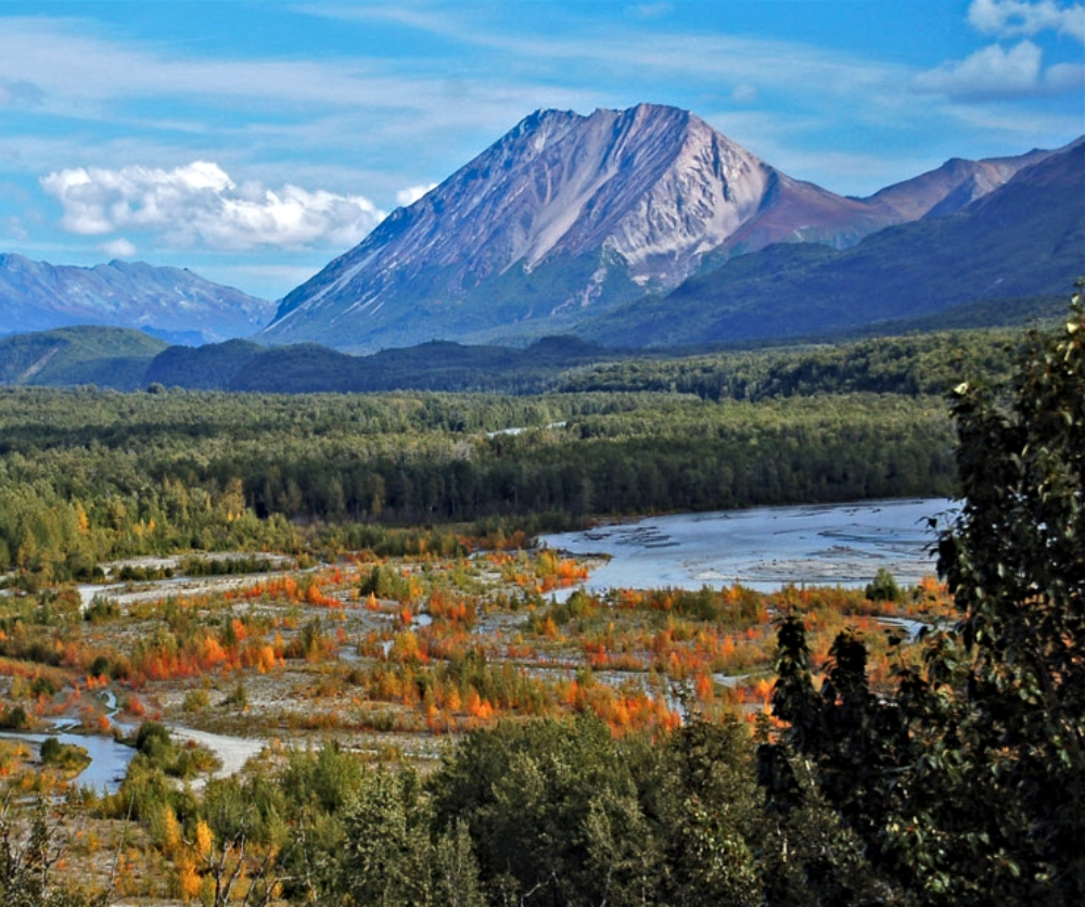 Pinnacle Mountain past Palmer, Alaska, A short drive north east from Palmer towards Sutton.